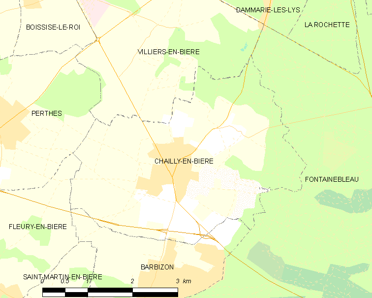 Map of French municipality Chailly-en-Bière